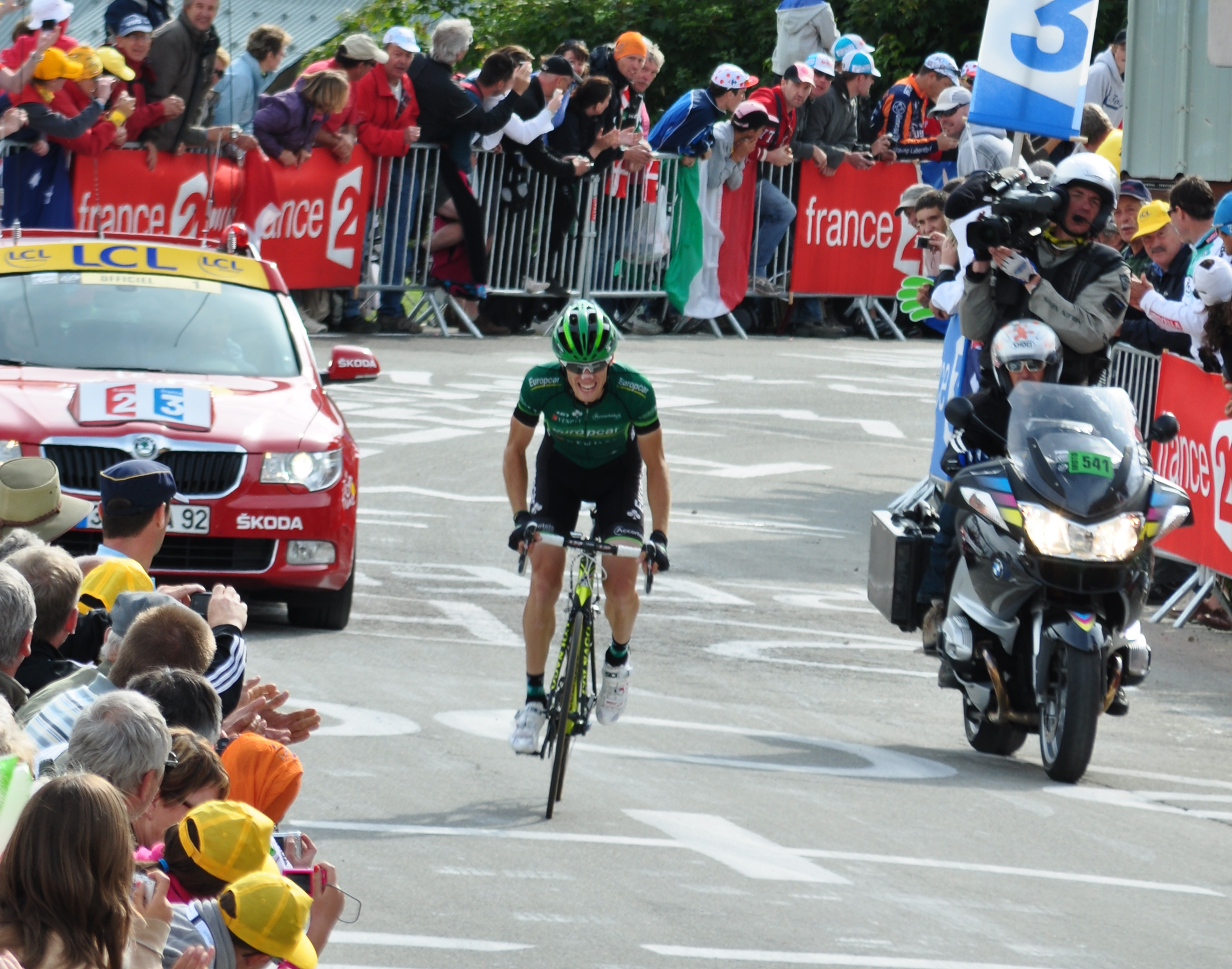 Pierre Rolland rides to victory in stage 19 of the 2011 Tour de France on Alpe d'Huez.